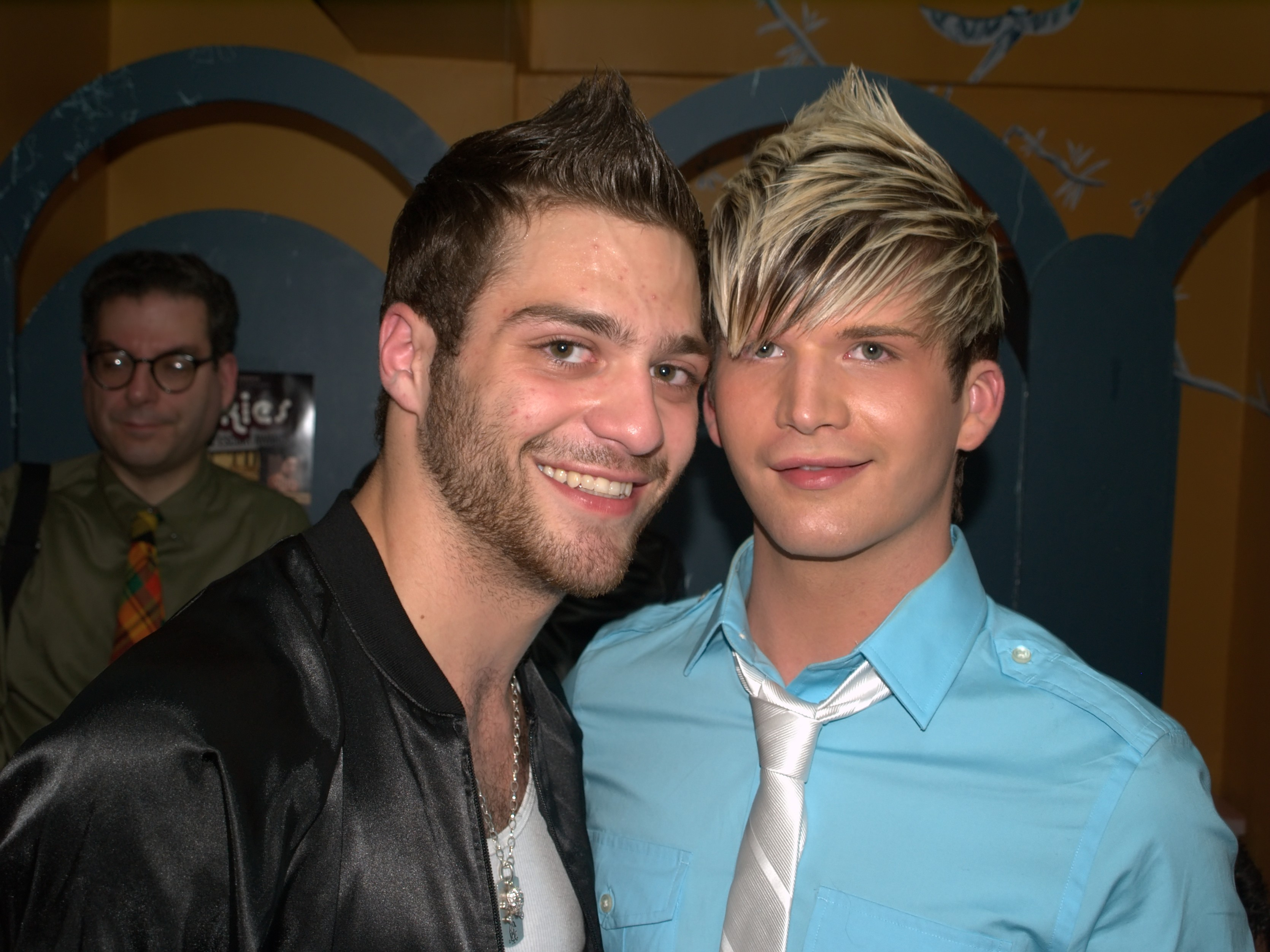 Hookies 2010: International Escort Award - Best Blogger/Writer nominee Jason Pitt (right) with friend.